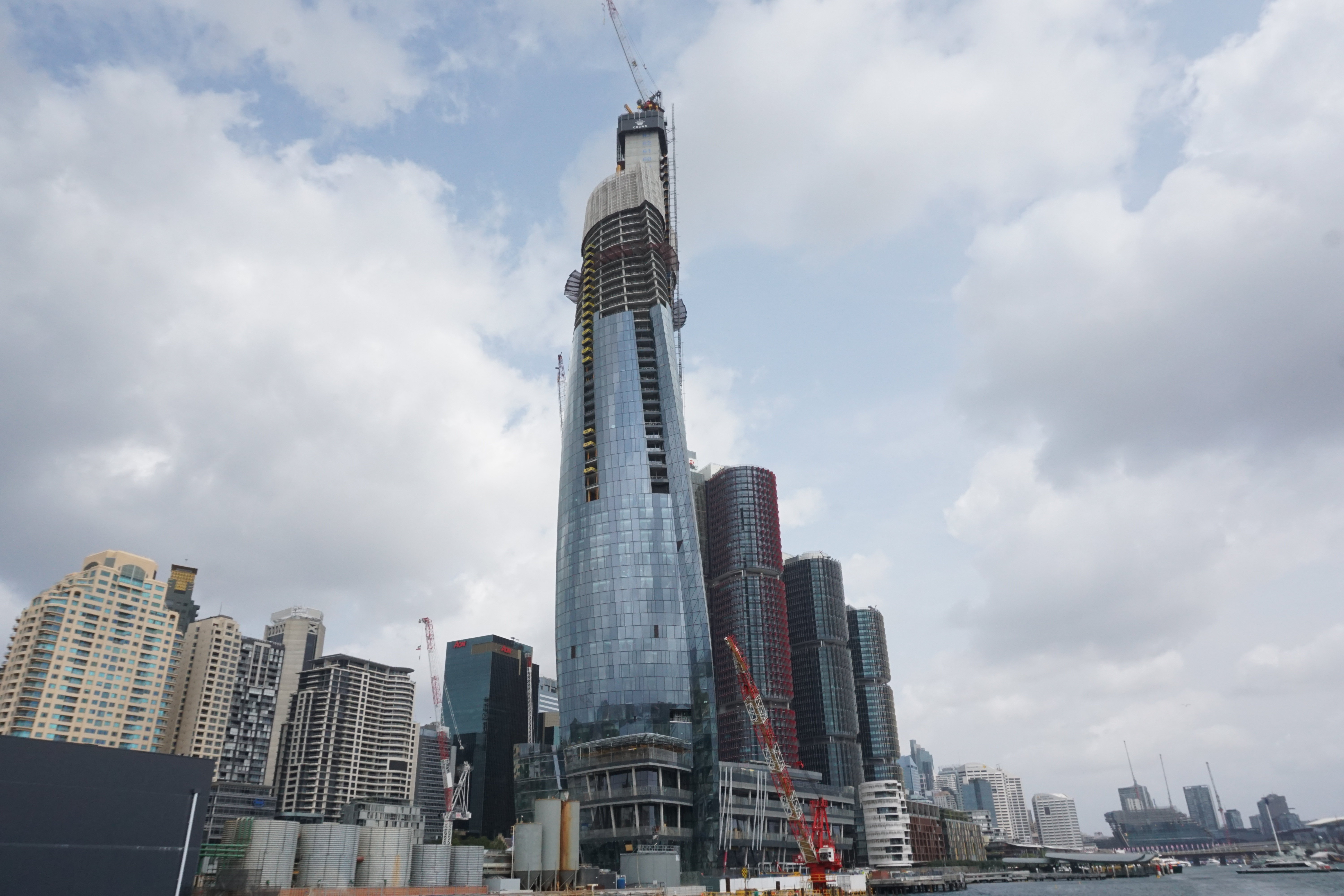 Crown Sydney under construction in December 2019